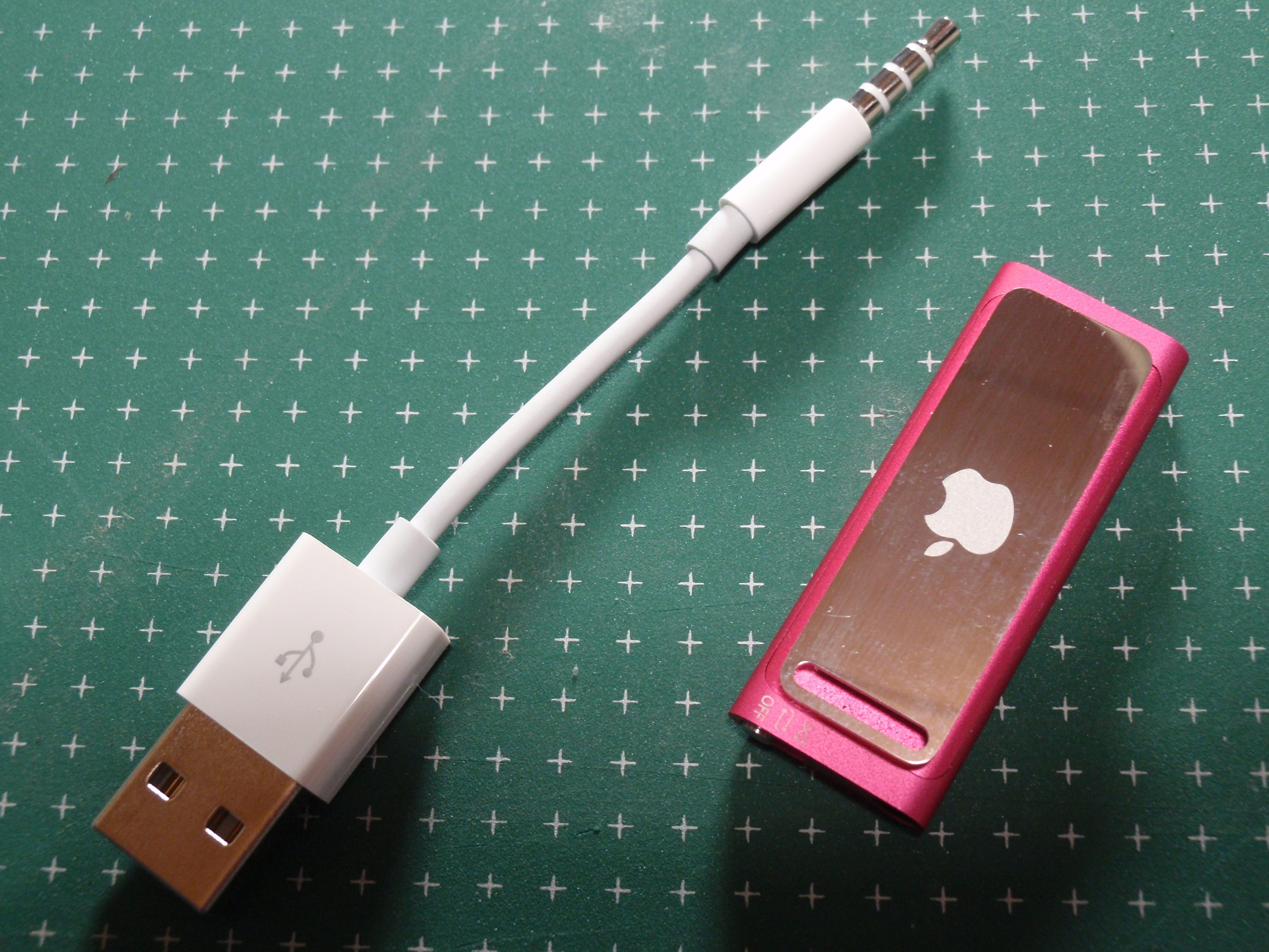 iPod shuffle and USB connecter